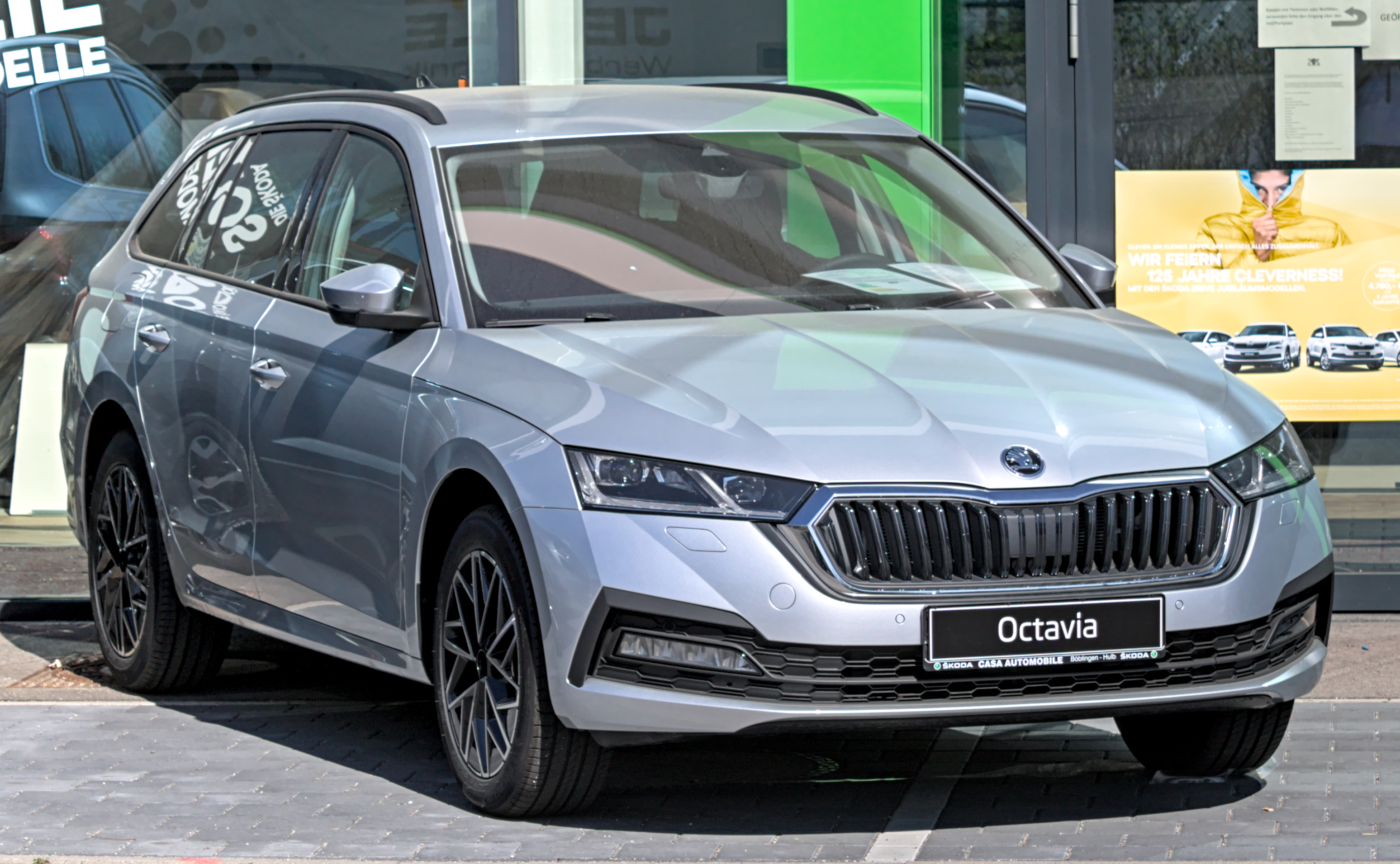 Skoda_Octavia_IV_Combi in Böblingen